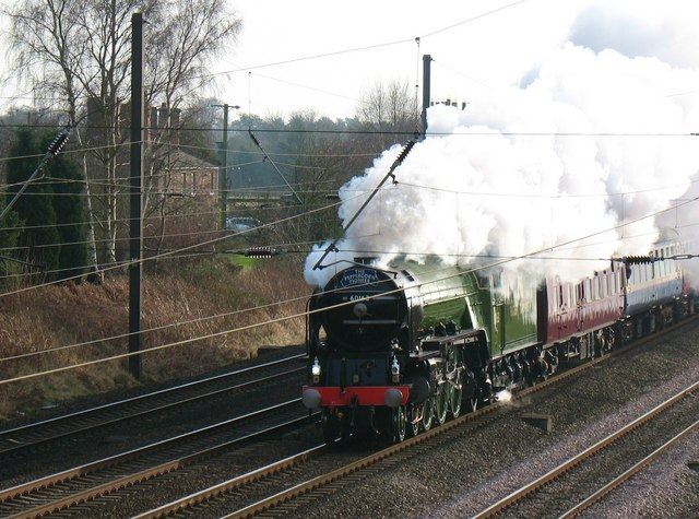 Brand new steam locomotive 60163 Tornado on her maiden main line passenger journey, The Peppercorn Pioneer. Northbound approaching Thirsk, North Yorkshire.